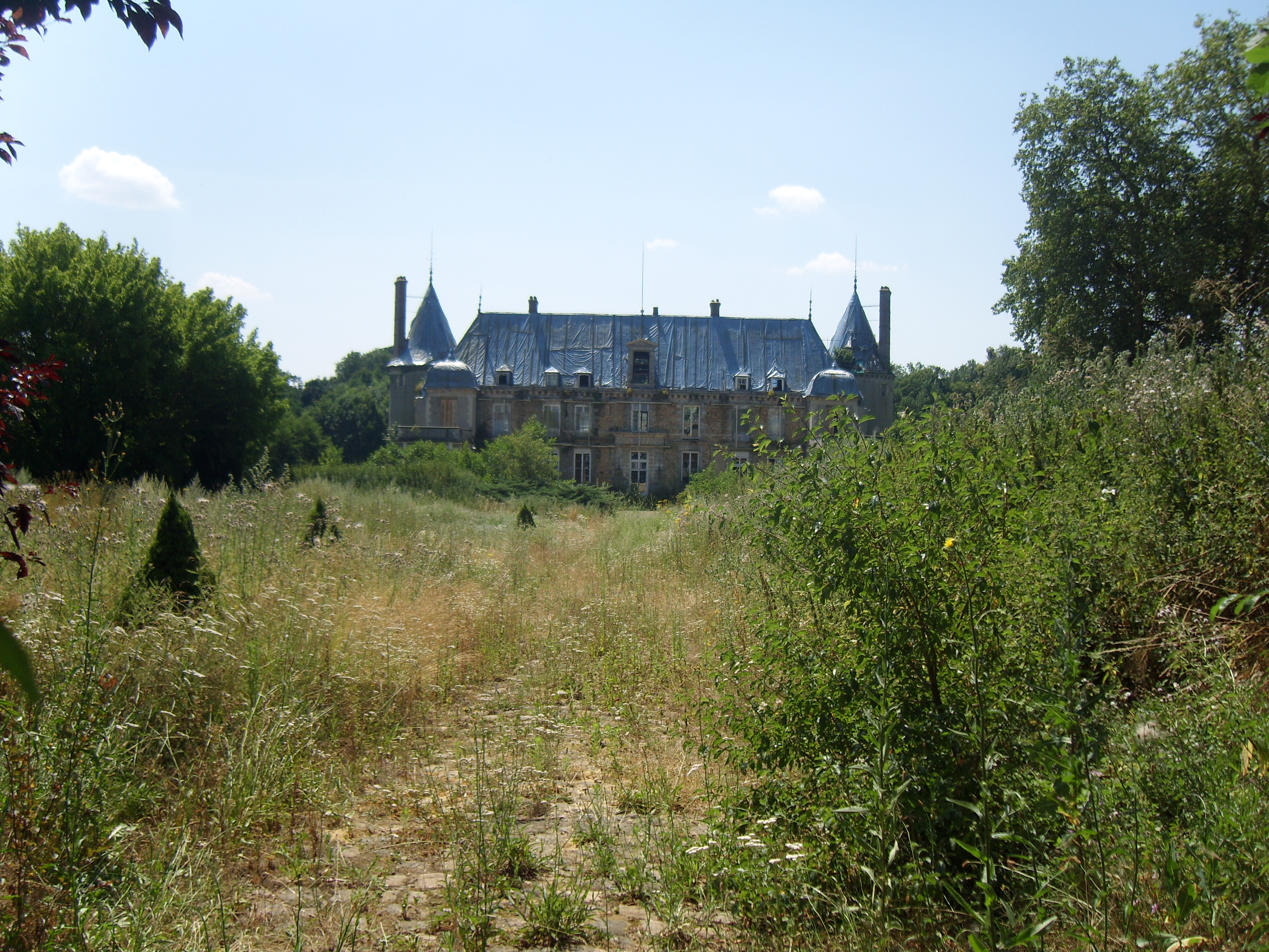 Castle of the duke of Épernon (Seine-et-Marne department, Île-de-France region)